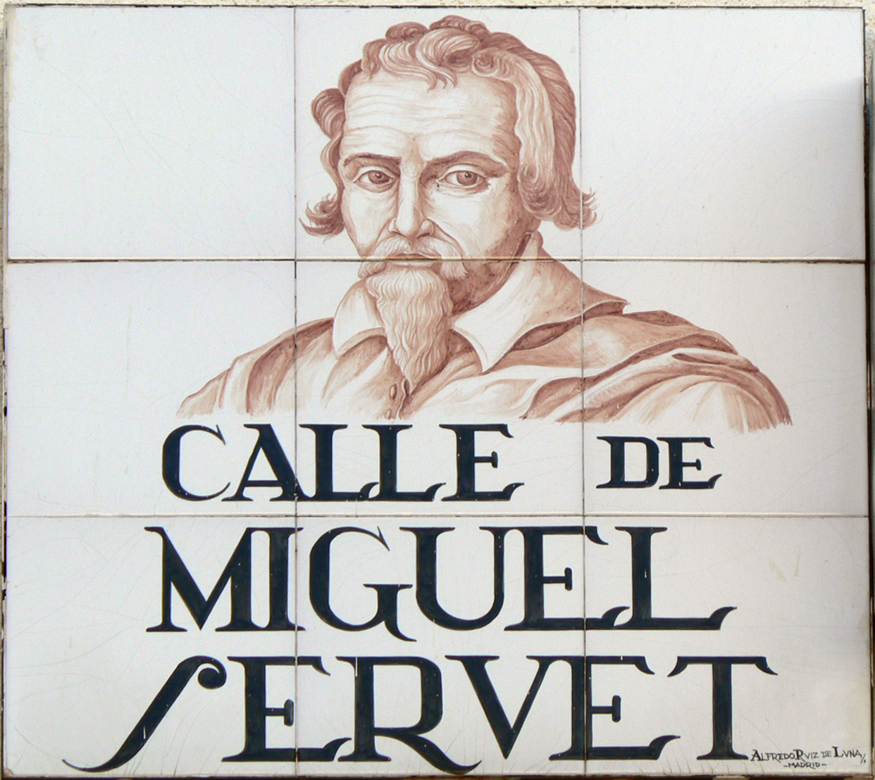 Sign of Calle de Miguel Servet (Michael Servetus street, Centro district) in Madrid (Spain).